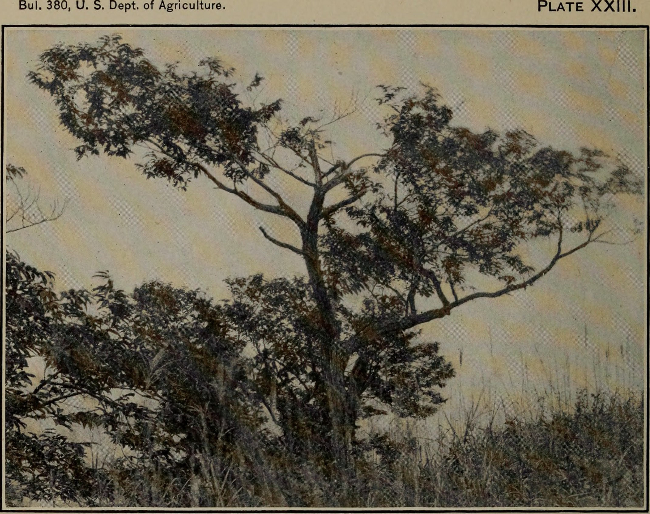 "Japanese Chestnut at Nikko, Japan, from Which the Chestnut Blight Fungus (Cryphonectria parasitica syn. Endothia parasitica) was Collected by F. N. Meyer, on September 17, 1915." Title: (Bulletins on forest pathology : from Bulletin U.S.D.A., Washington, D.C., 1913-1925) Year: 1913 (1910s) Authors: United States. Dept. of Agriculture Subjects: Trees; Plant diseases Publisher: (Washington : U. S. Dept. of Agriculture) Text Appearing Before Image: Bui. 380, U. S. Dept. of Agriculture Plate XXII Text Appearing After Image: Fiq. 1.—Japanese Chestnut at Nikko, Japan, from Which the Chestnut Blight Fungus (Endothia parasitica) was Collected by F. N. Meyer, on September 17, 1915.